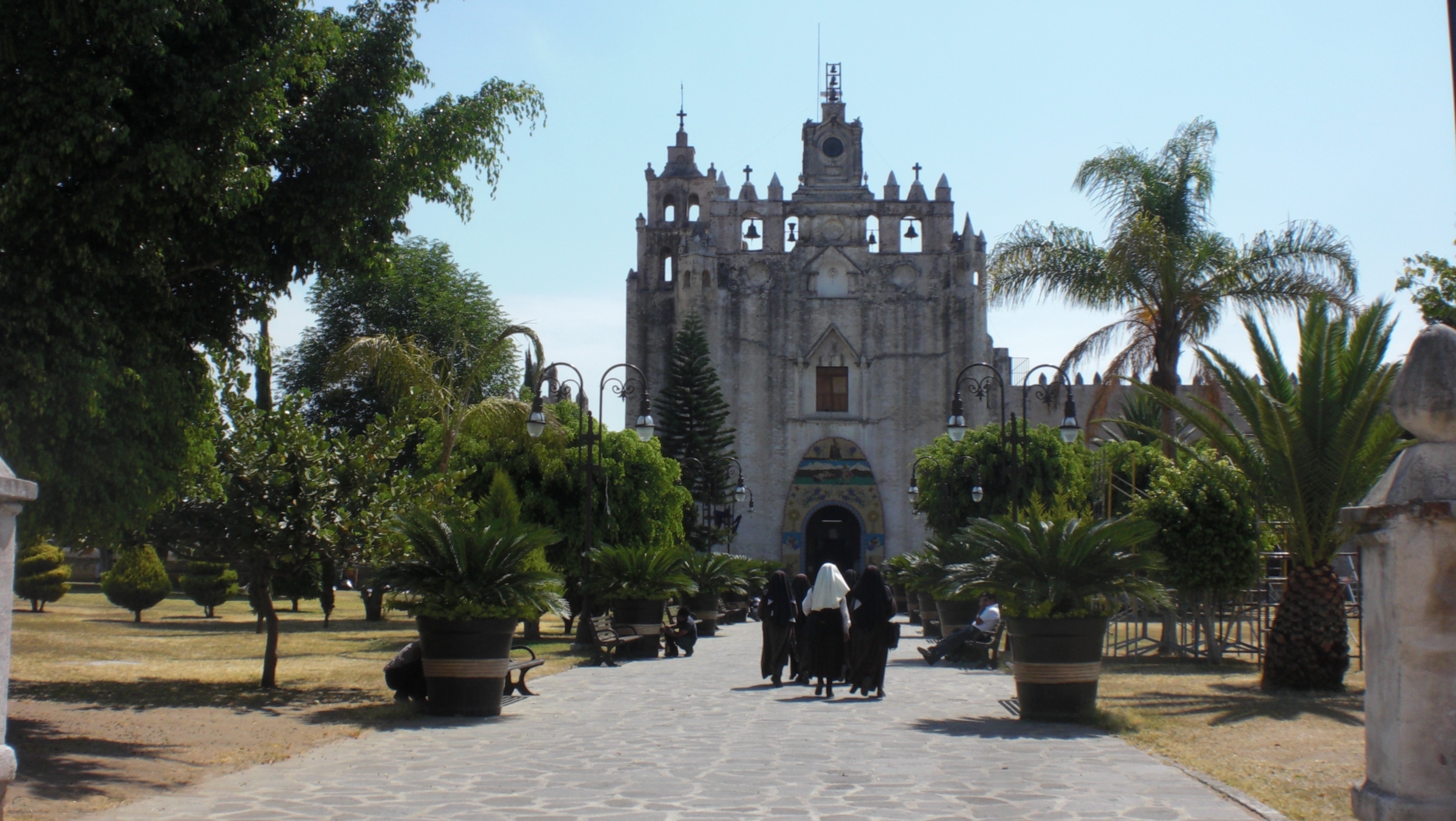 Iglesia Atlatlahucan